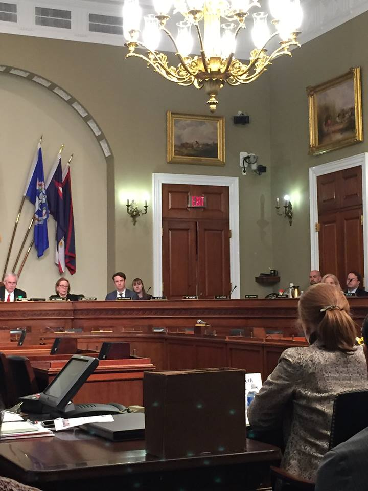 NCSHPO Board President Elizabeth Hughes testifying before the House Natural Resources Committee on February 11, 2016 on the Historic Preservation Fund reauthoirzation.